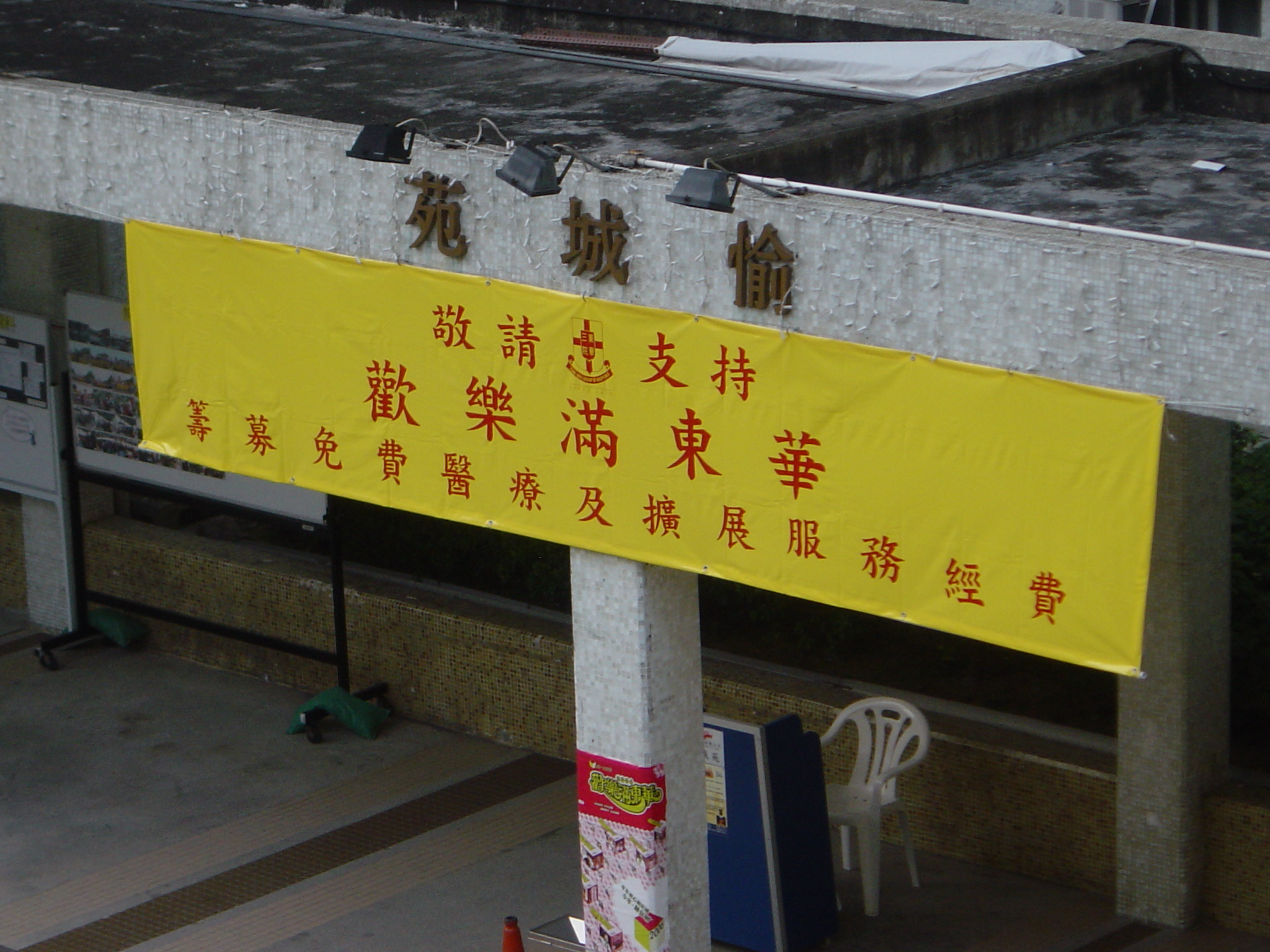 香港歡樂滿東華橫幅在zh:愉城苑。Banner of Tung Wah Charity Show.